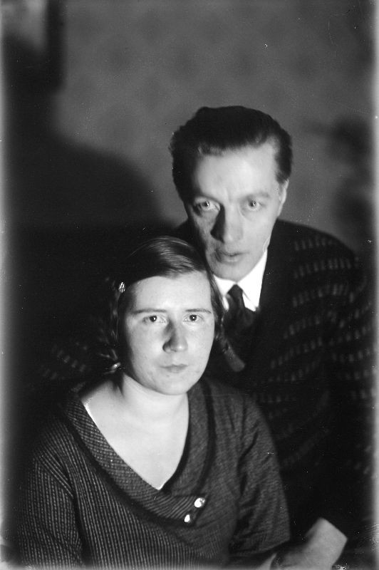 Photograph of the Finnish photographer E. M. Staf (1906–1985) with his wife Aili Staf.